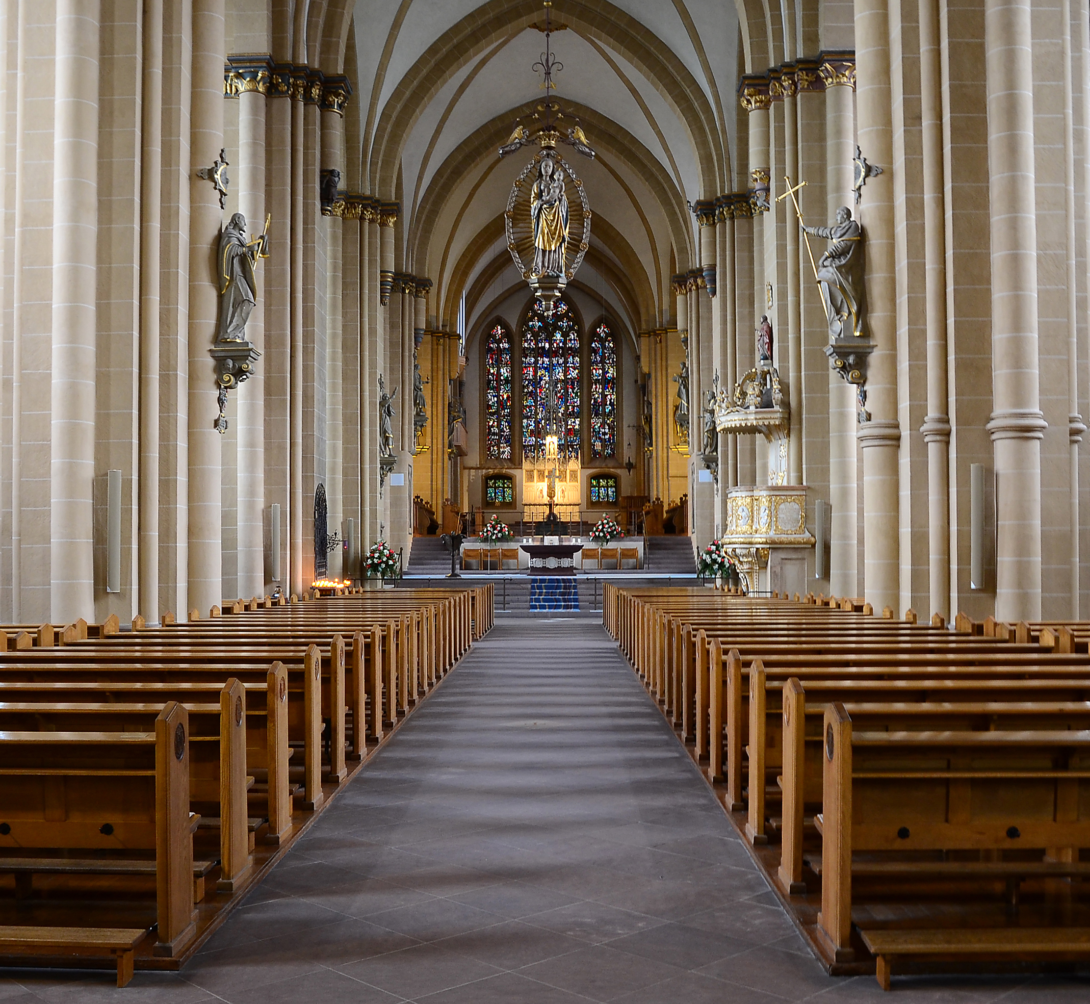 Paderborn Cathedral, looking down the nave to the main altar, Paderborn, North Rhine Westphalia, GermanyThis is a photograph of an architectural monument., no. 3